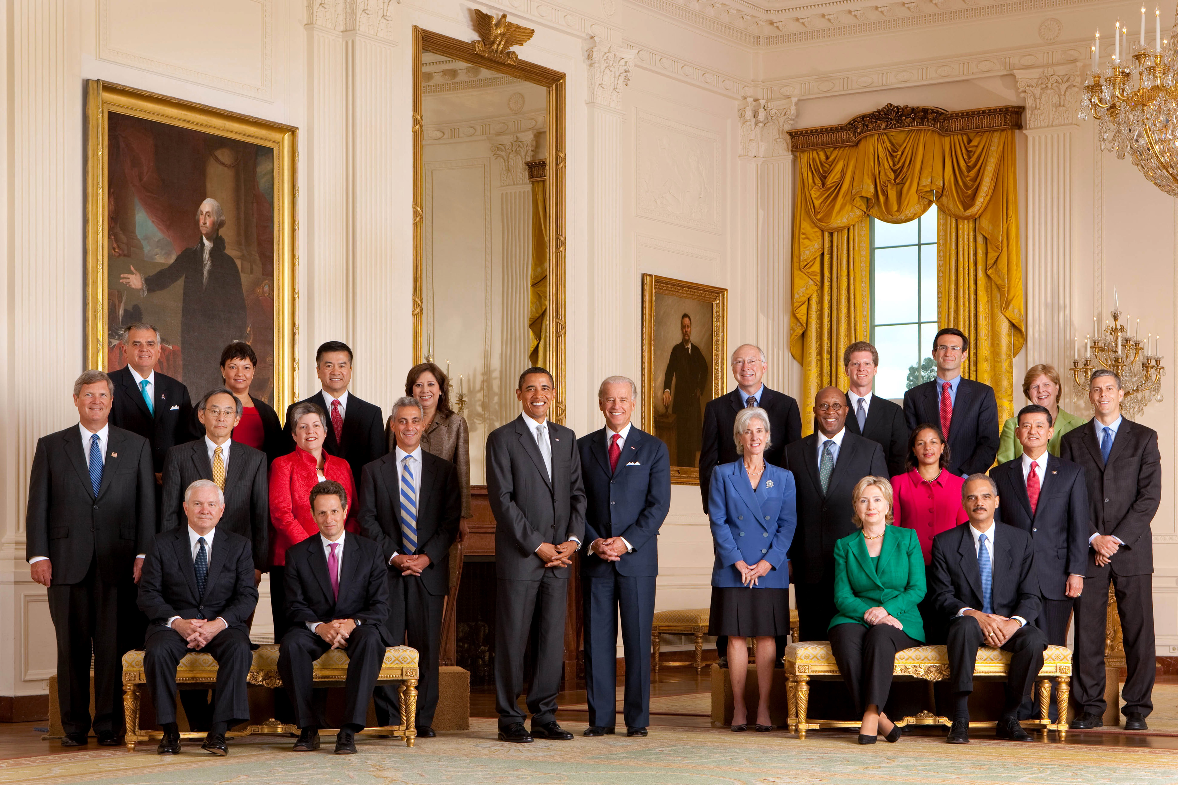 First Cabinet of President Barack Obama in the White House East Room. From left to right: Back row: Secretary of Transportation Ray LaHood, Administrator of the Environmental Protection Agency Lisa P. Jackson, Secretary of Commerce Gary Locke (no longer in office), Secretary of Labor Hilda Solis, President Barack Obama, Vice President Joe Biden, Secretary of Interior Ken Salazar, Secretary of Housing and Urban Development Shaun Donovan, Director of the Office of Management and Budget Peter R. Orszag (no longer in office), Chair of the Council of Economic Advisers Christina Romer (no longer in office), Secretary of Education Arne Duncan. Second row: Secretary of Agriculture Tom Vilsack, Secretary of Energy Steven Chu, Secretary of Homeland Security Janet Napolitano, Chief of Staff Rahm Emanuel (no longer in office), Secretary of Health and Human Services Kathleen Sebelius, United States Trade Representative Ron Kirk, United States Permanent Representative to the United Nations Ambassador Susan Rice, Secretary of Veteran Affairs Eric Shinseki. Third row, sitting: Secretary of Defense Robert Gates (no longer in office), Secretary of Treasury Timothy F. Geithner, Secretary of State Hillary Rodham Clinton, Attorney General of the United States Eric Holder.